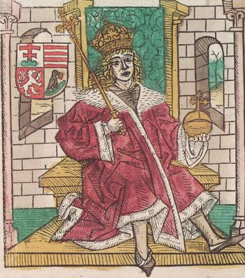 Matei Corvin in Johannes de Thurocz's Illustrated Chronicle